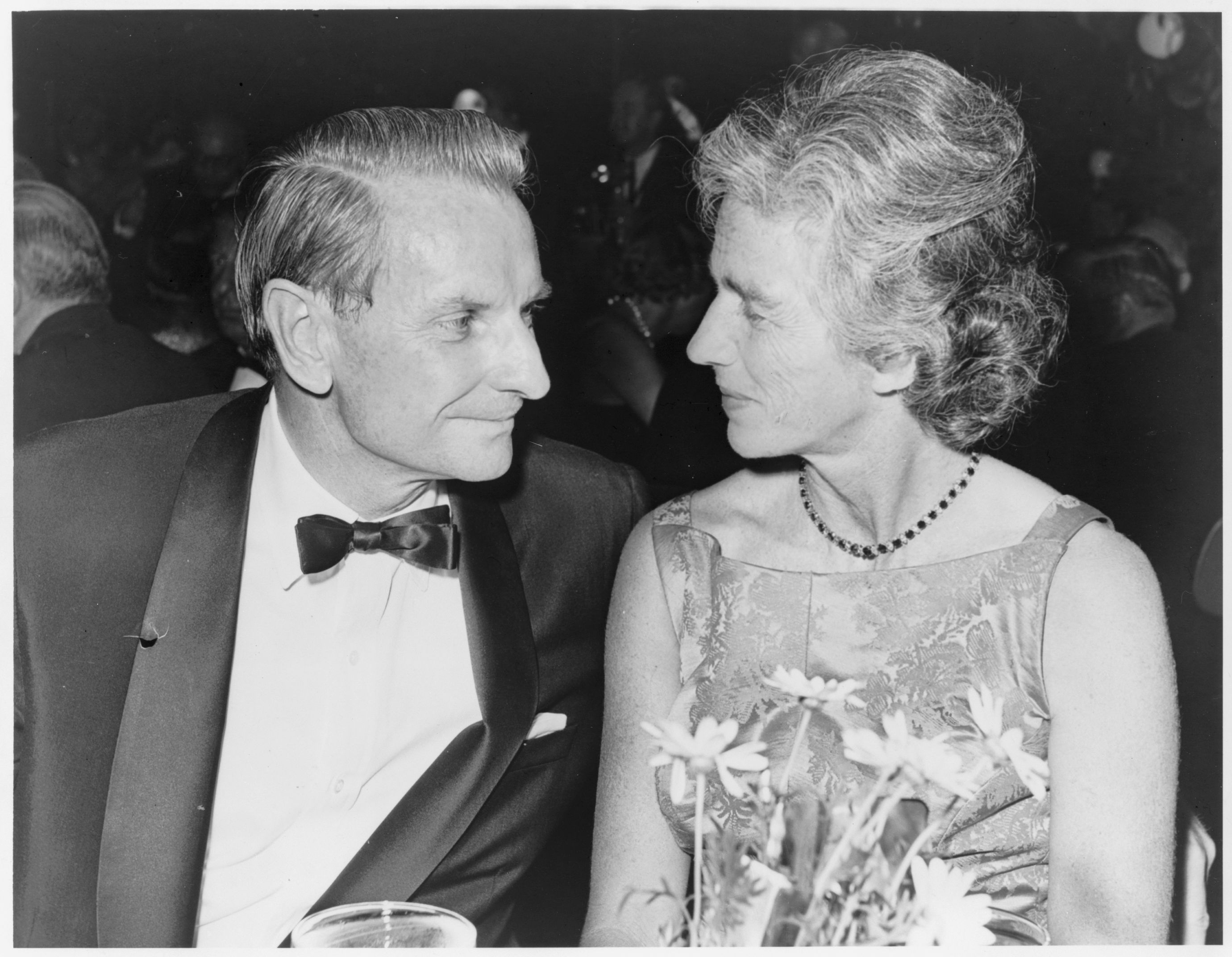 Mr. & Mrs. Laurance S. Rockefeller, half-length portraits, seated at table, facing each other, at champagne party, in Vivian Beaumont Theater, Lincoln Center / World Telegram & Sun photo by John Bottega.